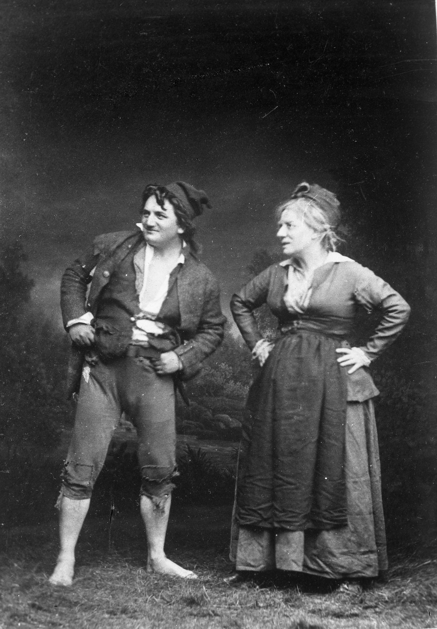 Actors Sofie Parelius and Henrik Klausen in Henrik Ibsen's play Peer Gynt. From the first performance at Christiania Theater in 1876